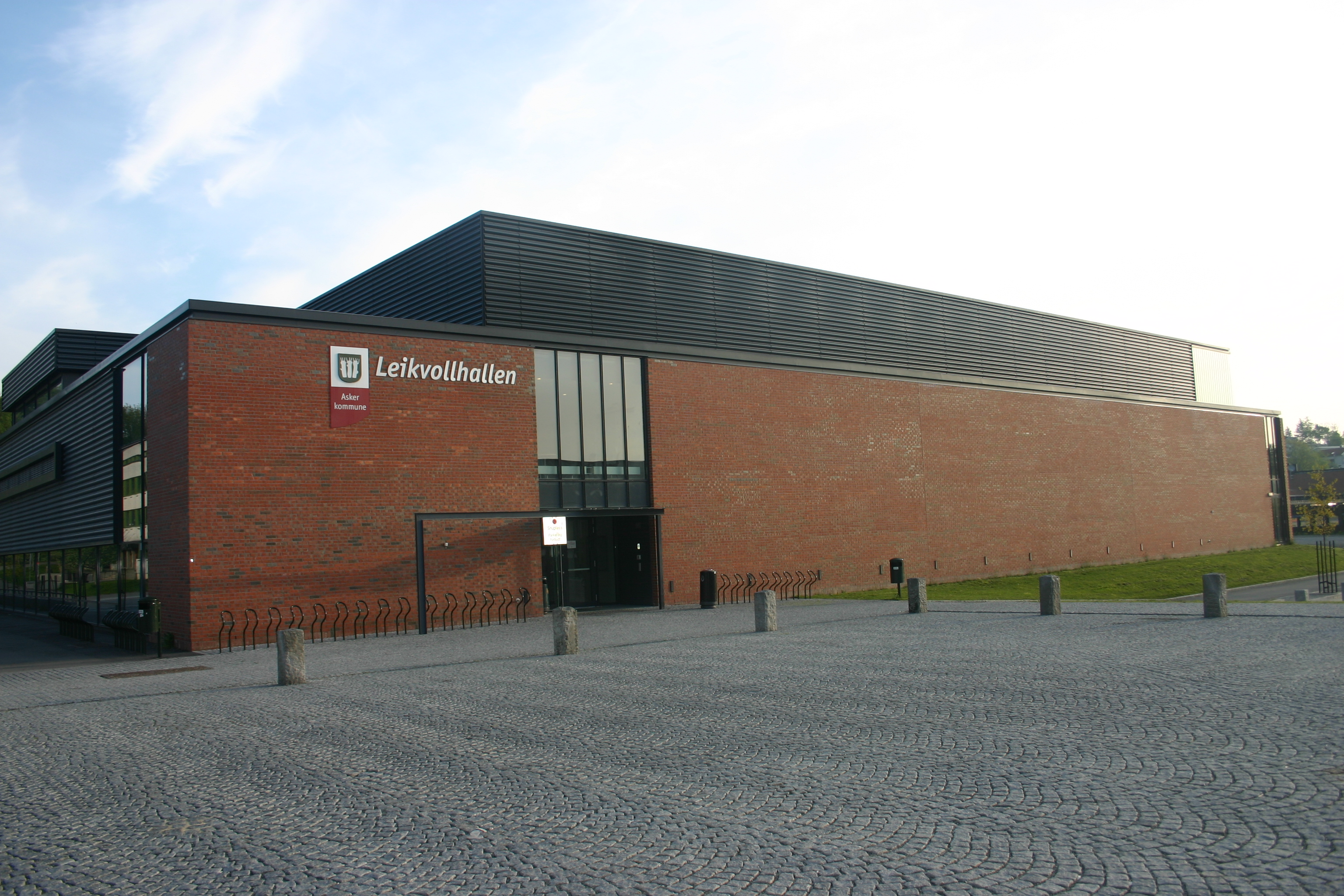 Leikvollhallen at Risenga idrettspark in Asker, Norway (main entrance)